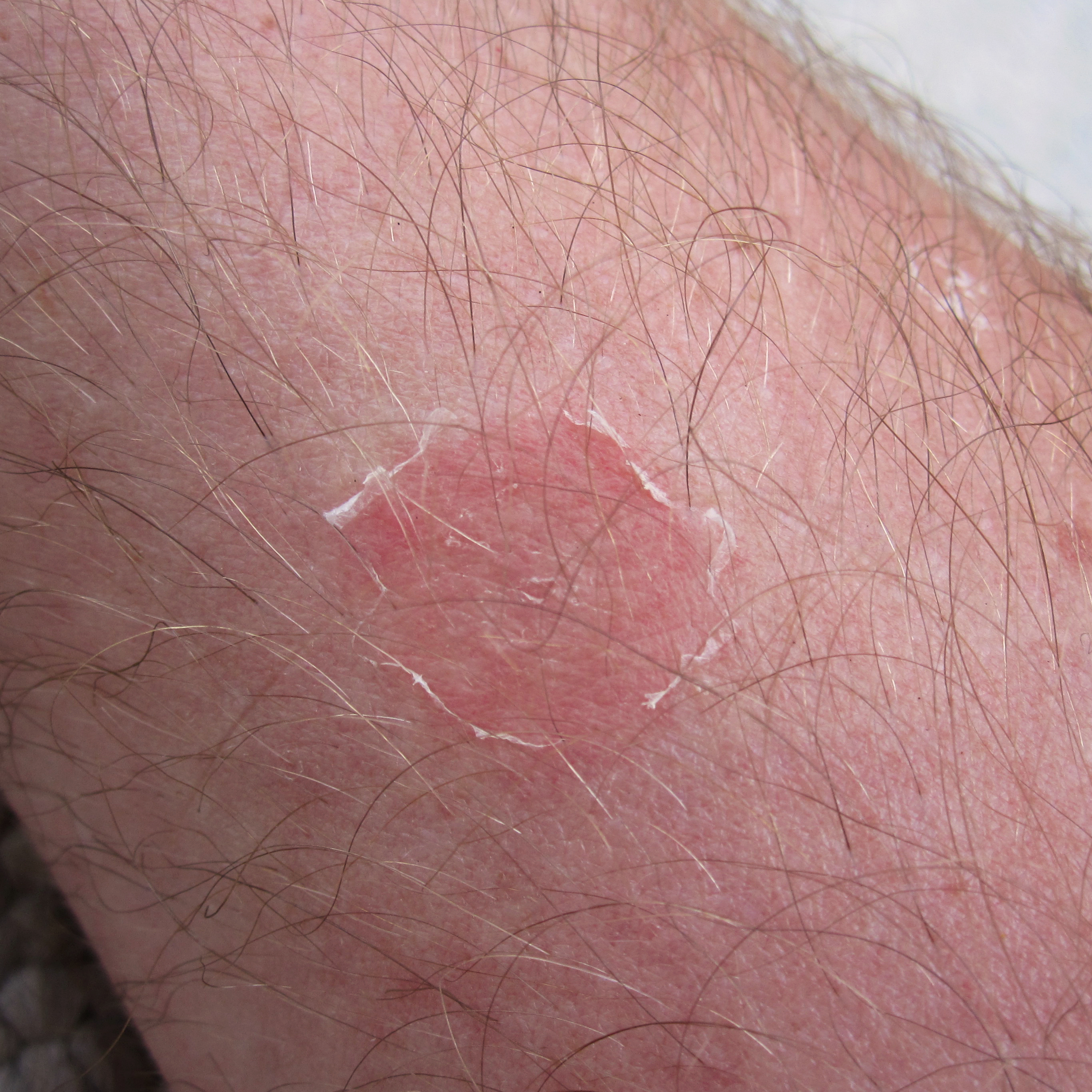 Ringworm lesion on forearm of 45 year old Caucasian male caused by Microsporum gypseum incurred from fomite exposure through handling of firewood. James Scott (arm of the author)